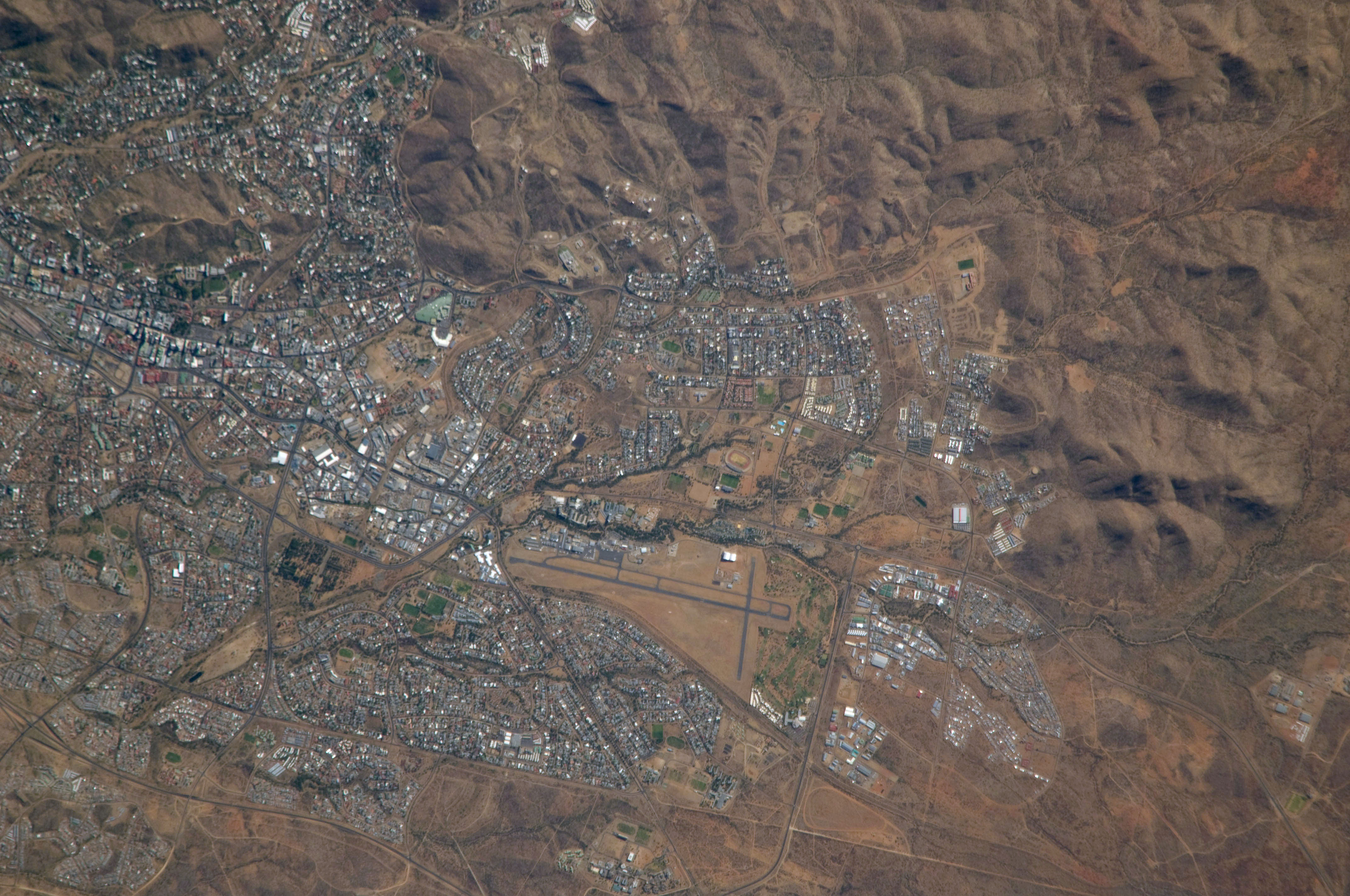 Photo of Windhoek from International Space Station (ISS) during Expedition 22 on December 30, 2009.